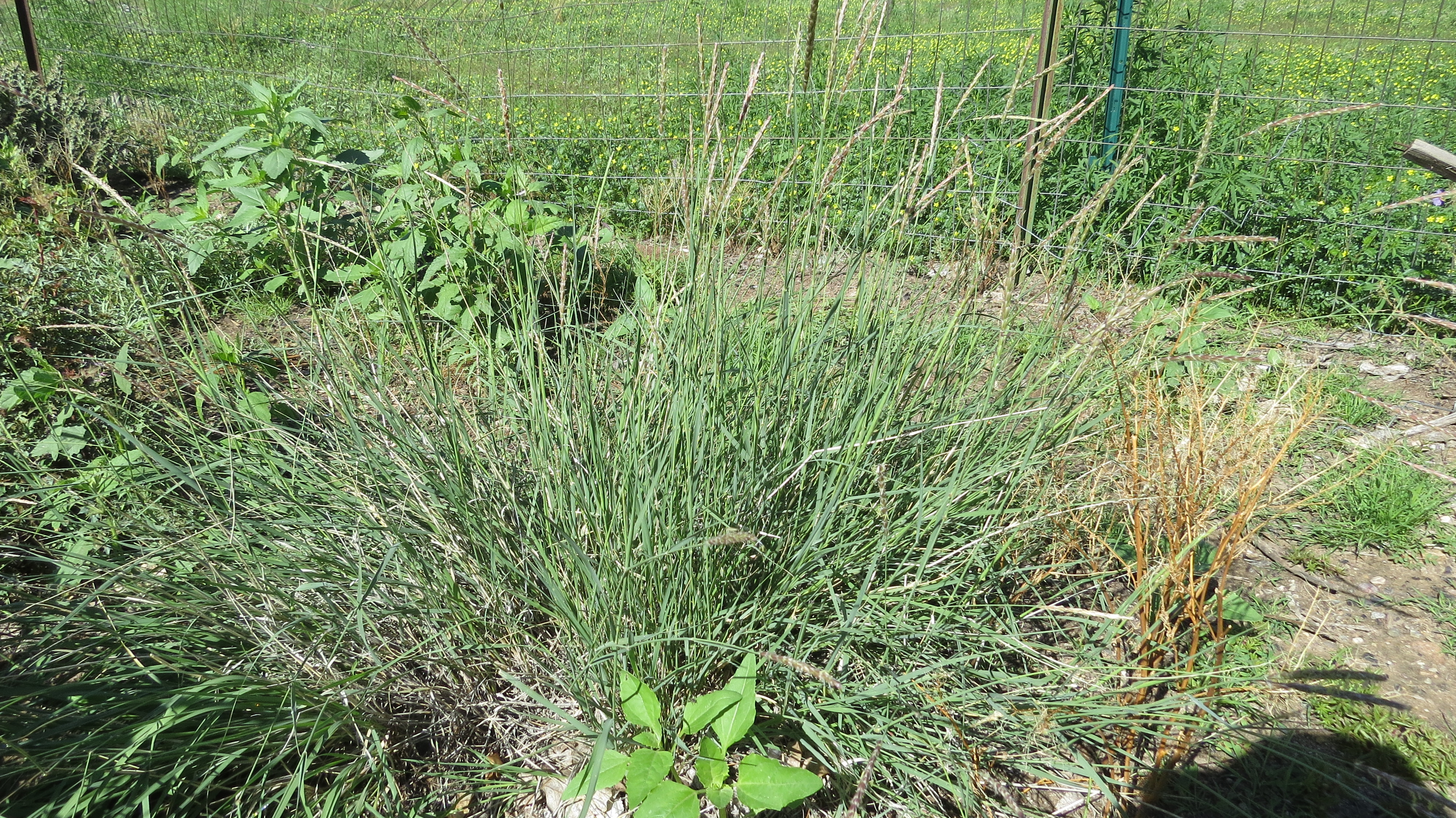 Plant of Galleta, Hilaria jamesii, in my yard after a wet summer, Española, New Mexico.